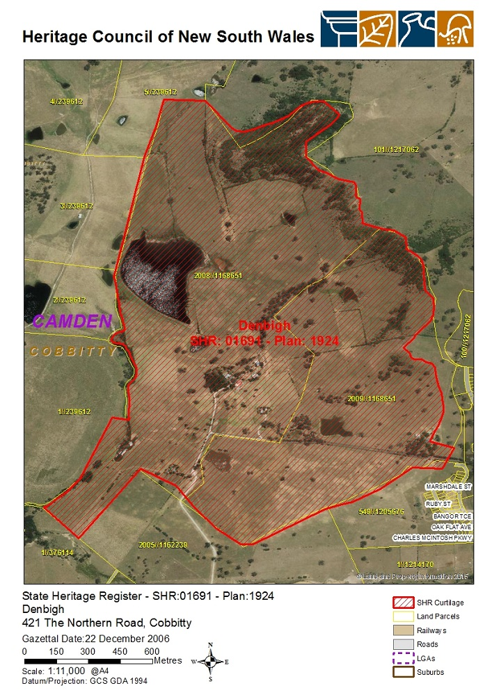 Denbigh, Cobbitty: SHR Plan 1924